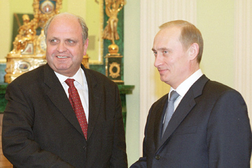 THE KREMLIN, MOSCOW. President Putin and World Trade Organisation Director-General Mike Moore.